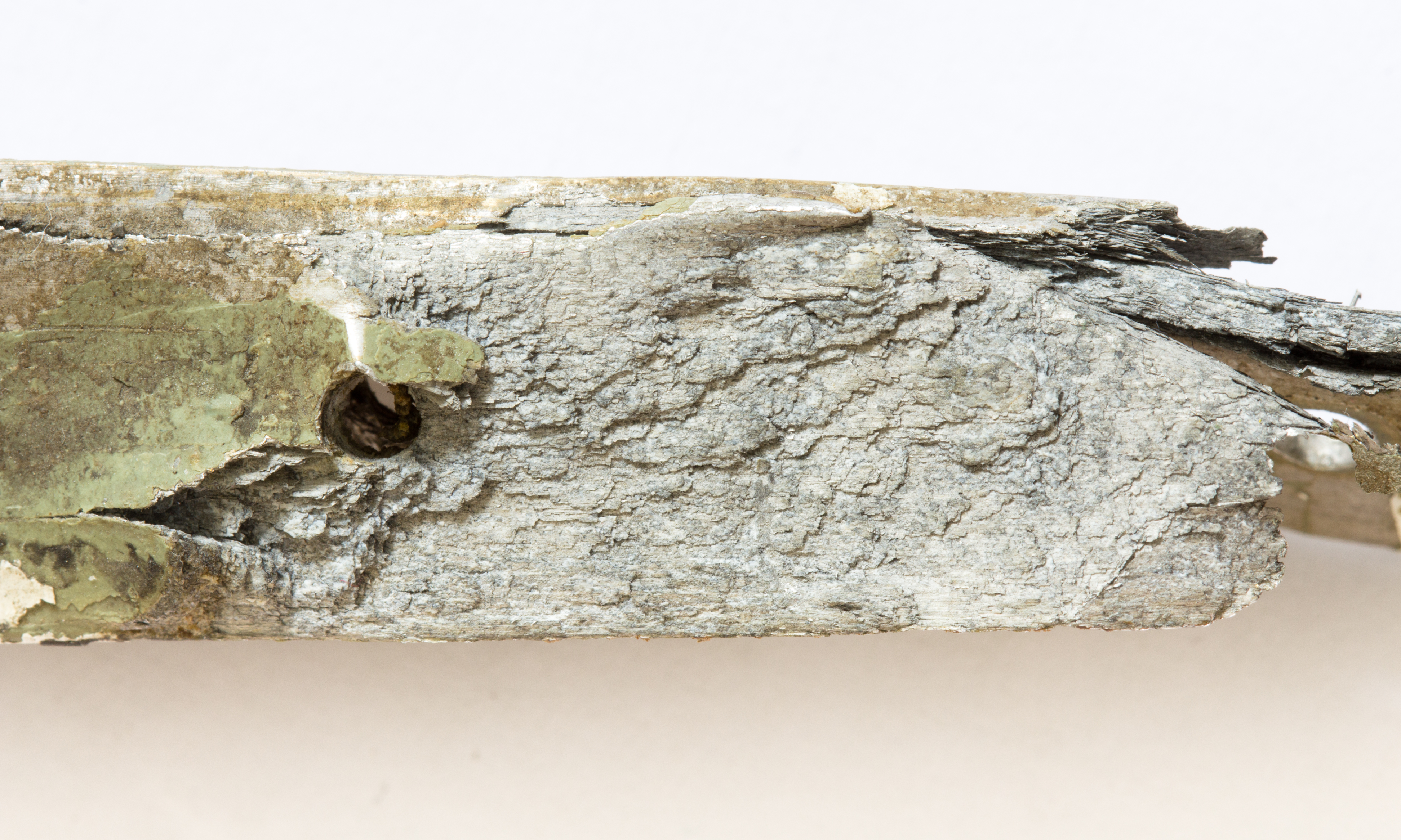 Exfoliation corrosion in a piece of aluminium. The piece's width is around 14 mm. Exfoliation corrosion is a type of intergranular corrosion which spreads along the crystallization surfaces, which causes the material to split in the appearance of layers.